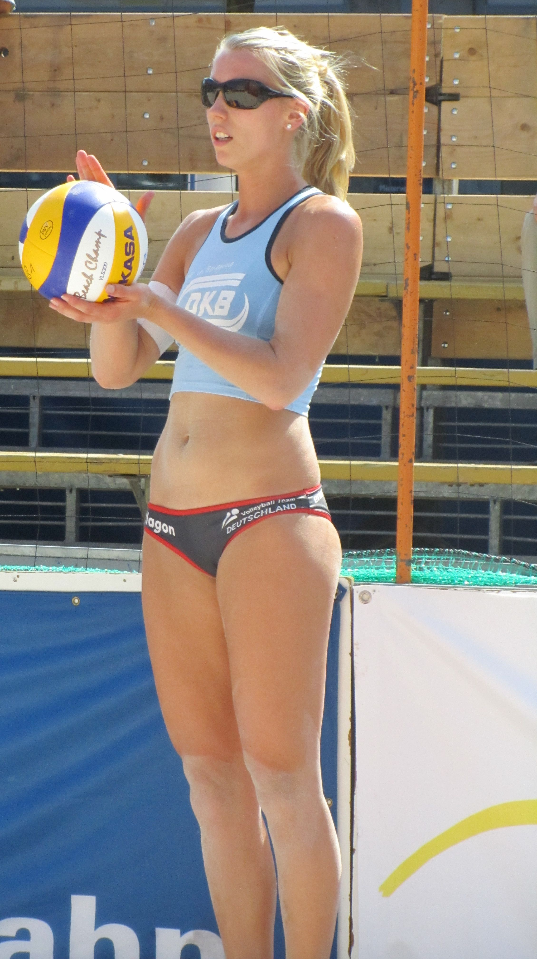 the German beach volleyball player Karla Borger at the DKB Beach Cup 2011 in Düren, Germany